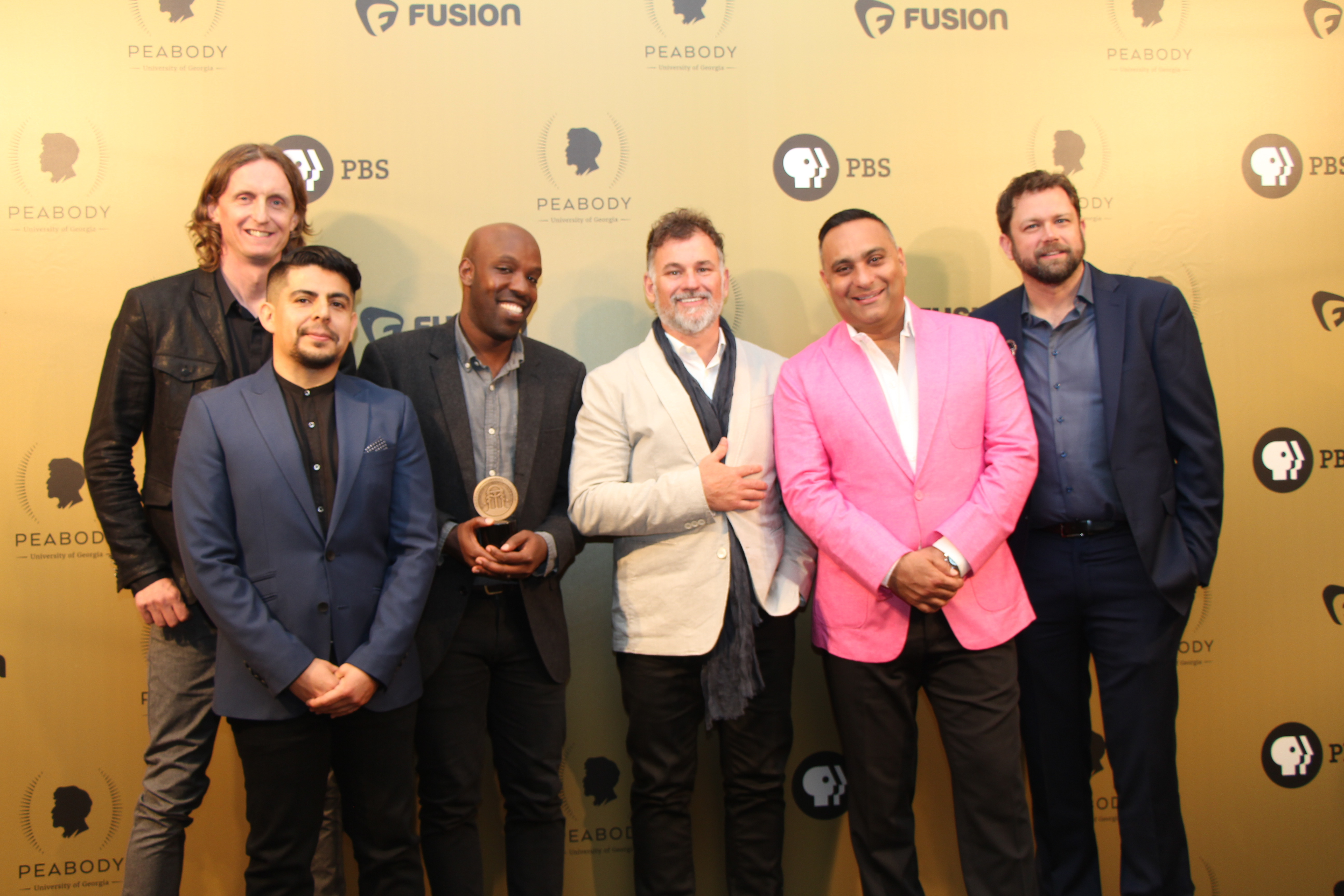 NEW YORK, NY - MAY 20: Scot McFadyen, Rodrigo Bascunan, Shadrach Kabango, Sam Dunn, Russell Peters, and Darby Wheeler from Hip Hop Evolution pose with an award during The 76th Annual Peabody Awards Ceremony at Cipriani, Wall Street on May 20, 2017 in New York City.